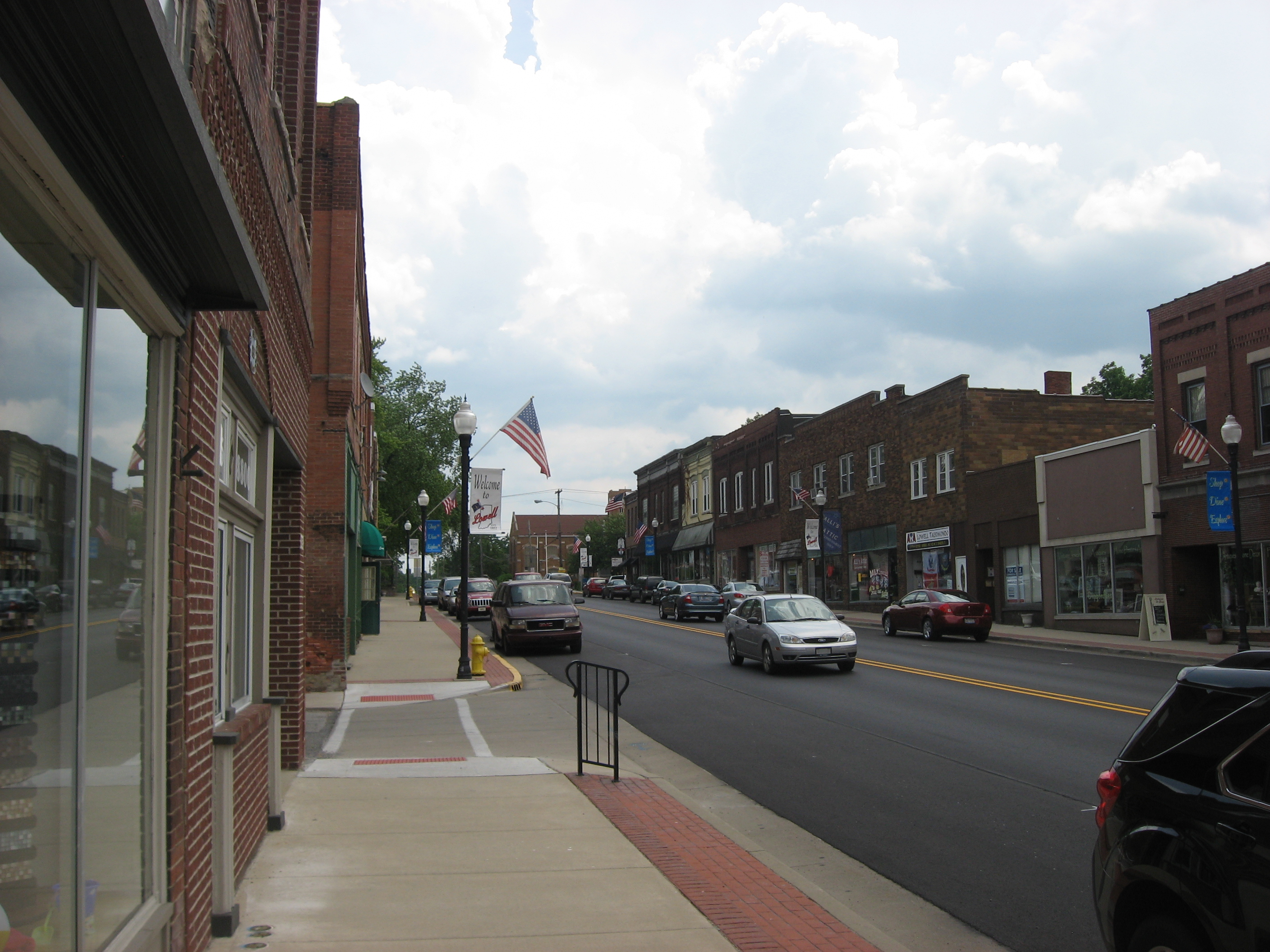 Looking eastward along the 200 block of E. Commercial Avenue (State Road 2) in downtown Lowell, Indiana, United States. This portion of Commercial is part of the Lowell Commercial Historic District, a historic district that is listed on the National Register of Historic Places.